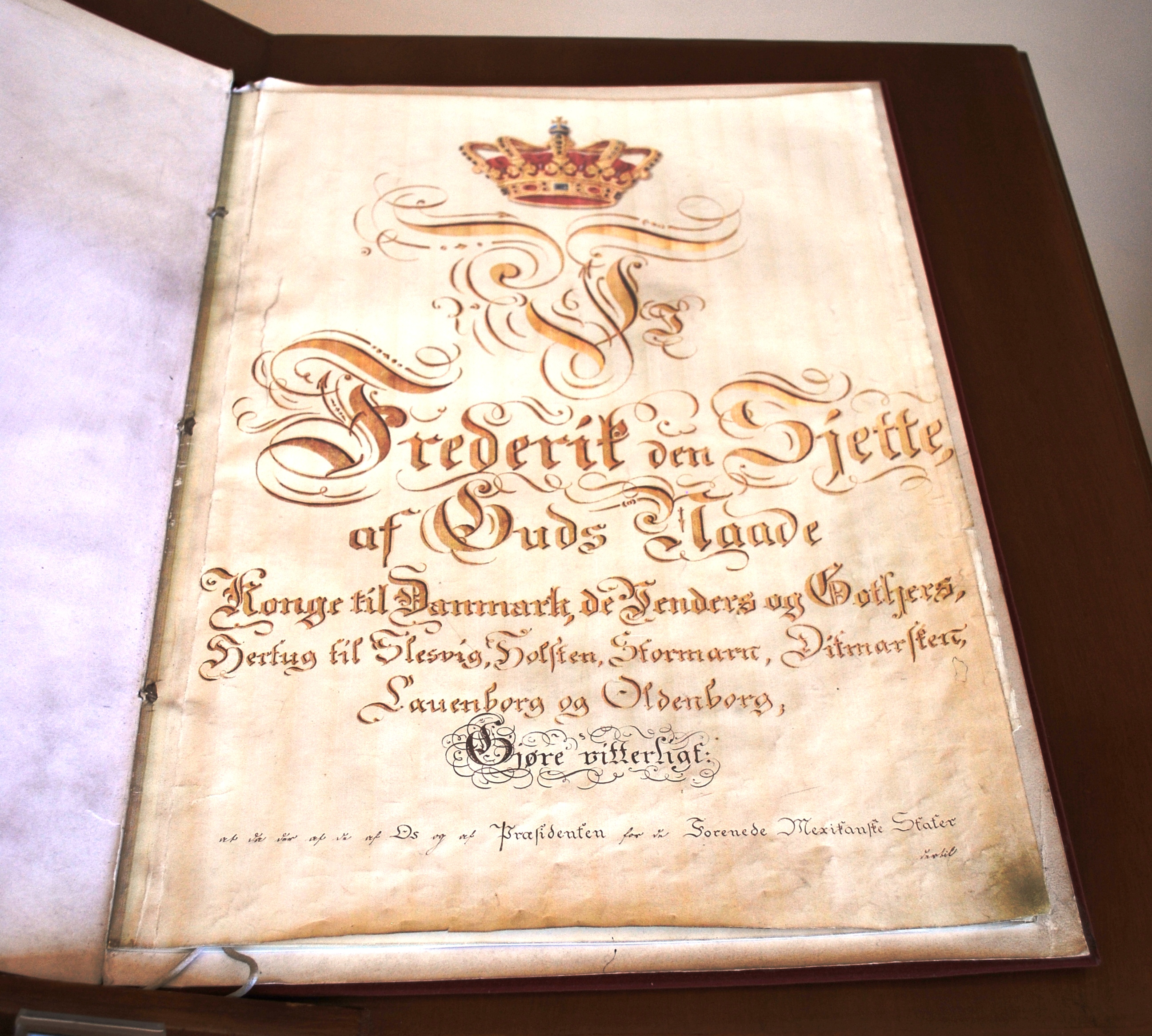 Treaty of Friendship Commerce and Navigation between Mexico and Denmark signed in 1827. On display at the Naval History Museum in Mexico City